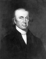 John Taylor of Caroline